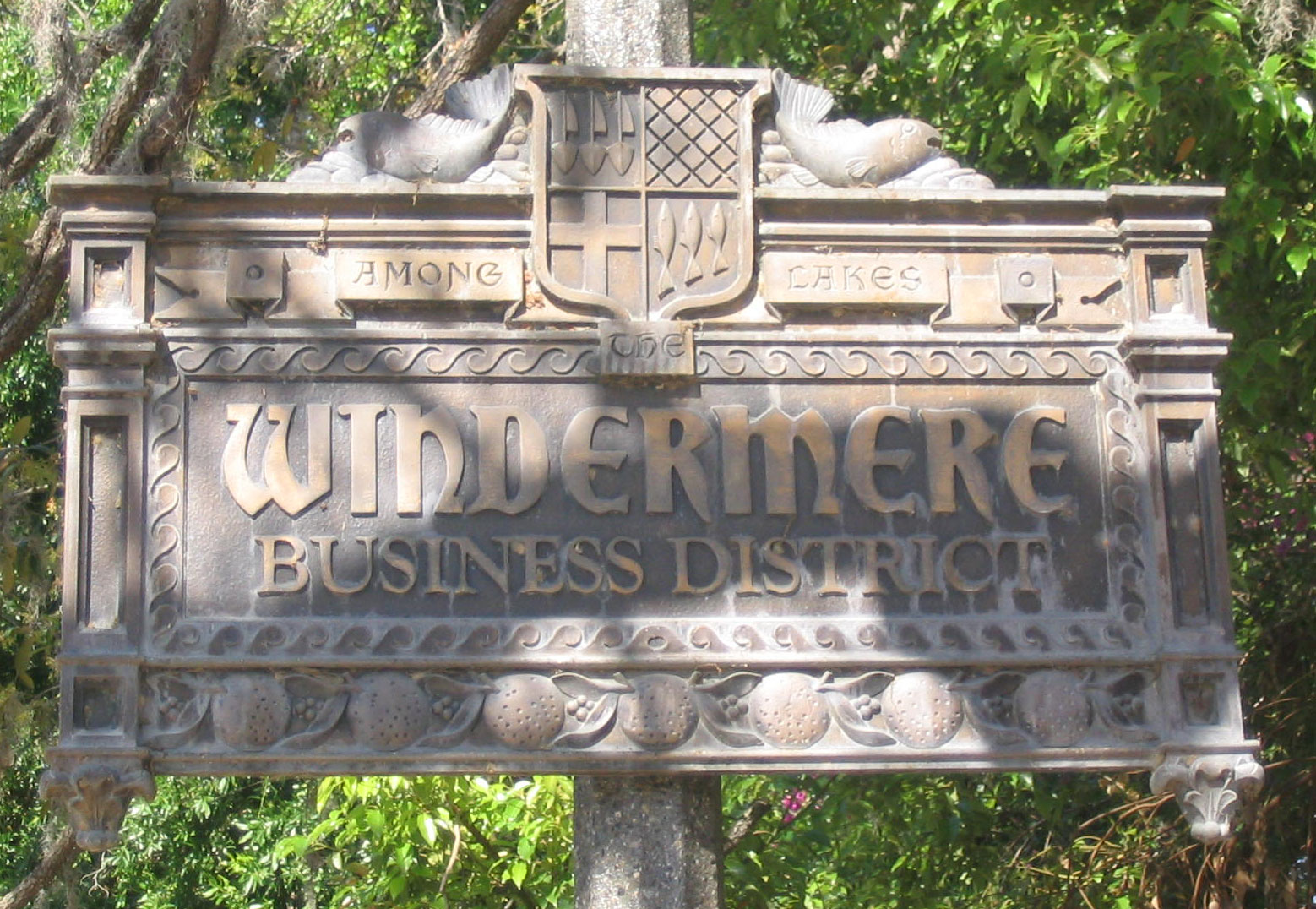 On a light pole on Sixth Avenue west just past Oakdale Street.